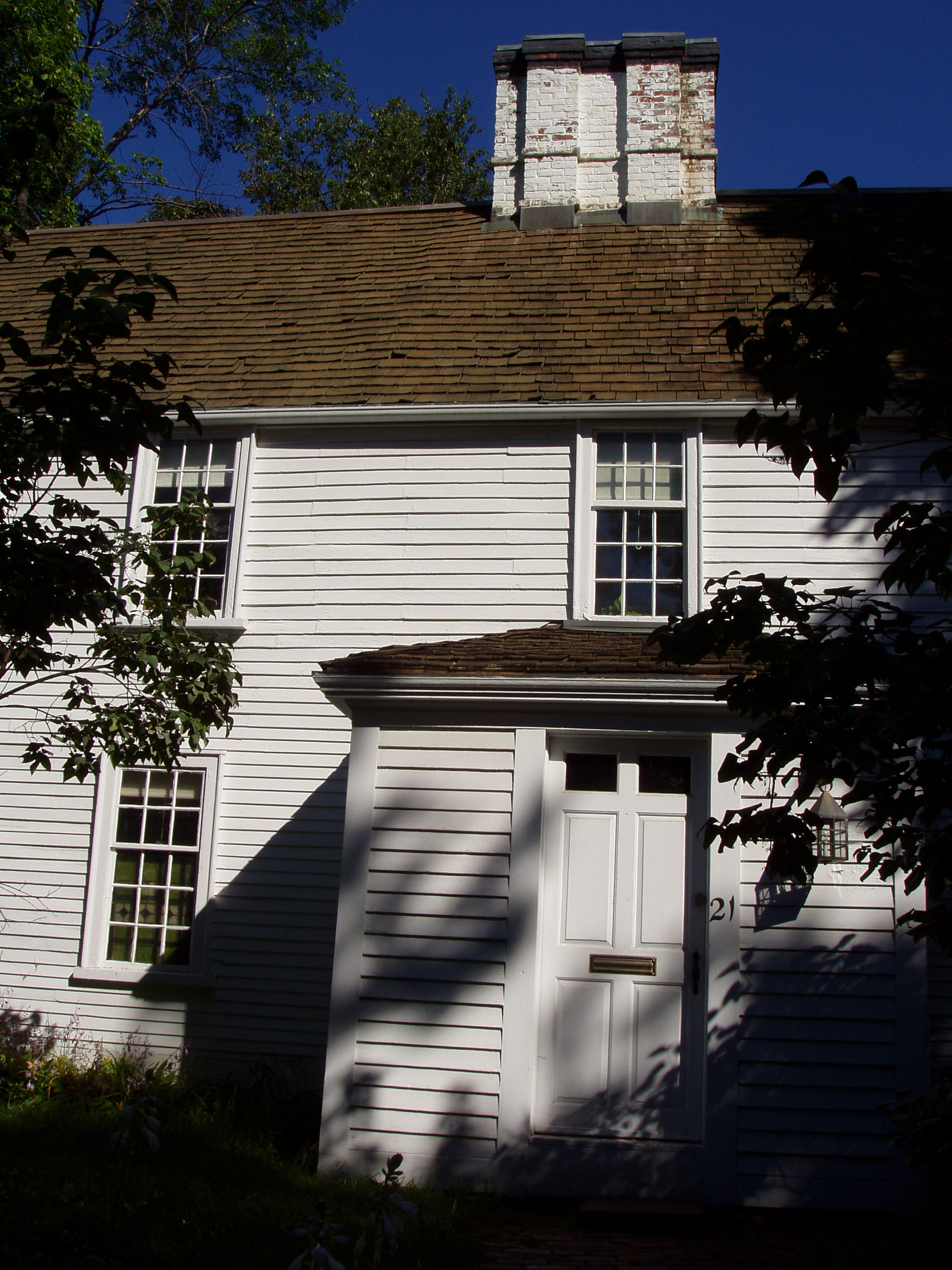 Cooper-Frost-Austin House, Cambridge, Massachusetts - part of front facade. Photograph taken by me, September 2005.